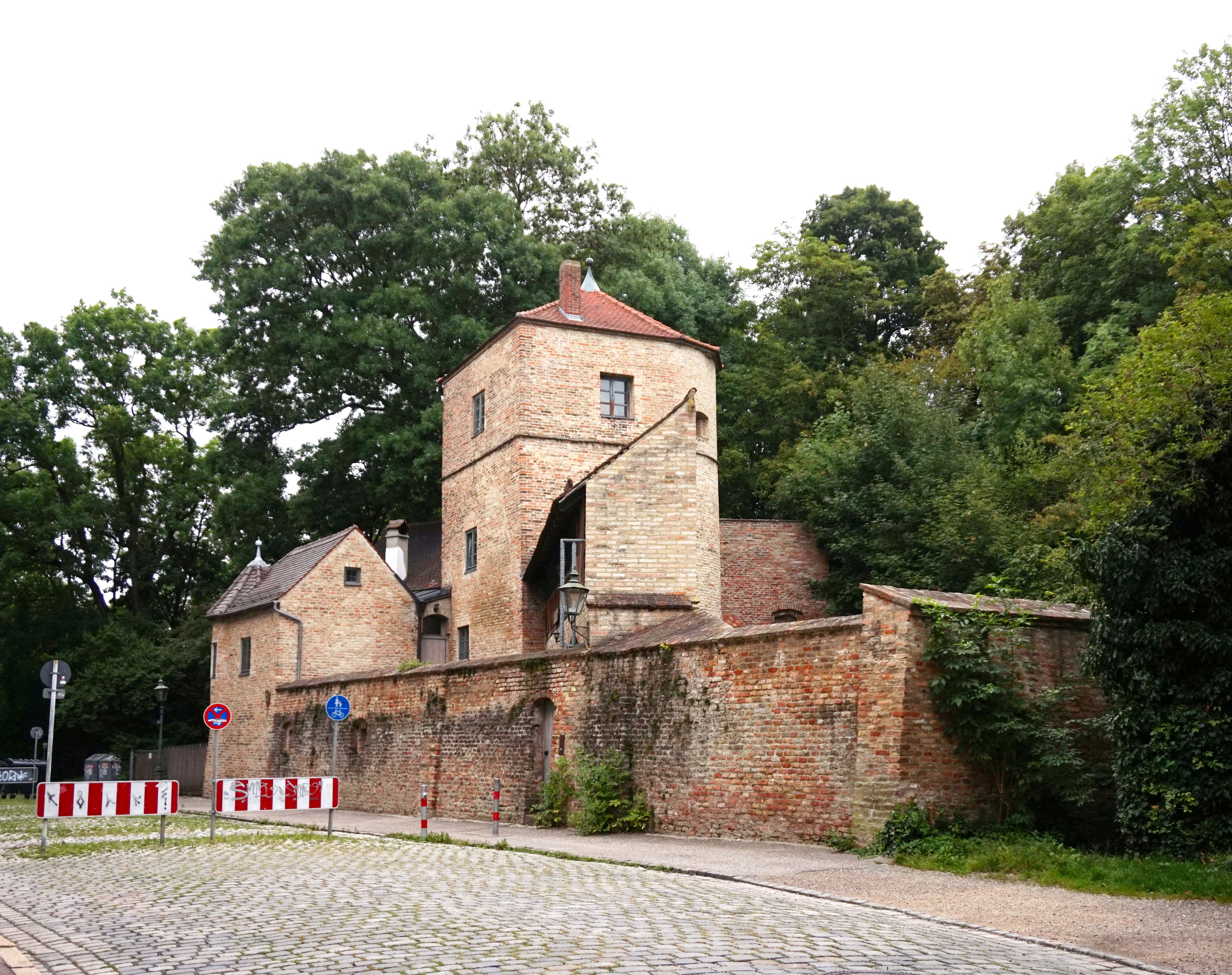 Augsburg, Germany.This photograph was taken with a Sony ILCE-5000